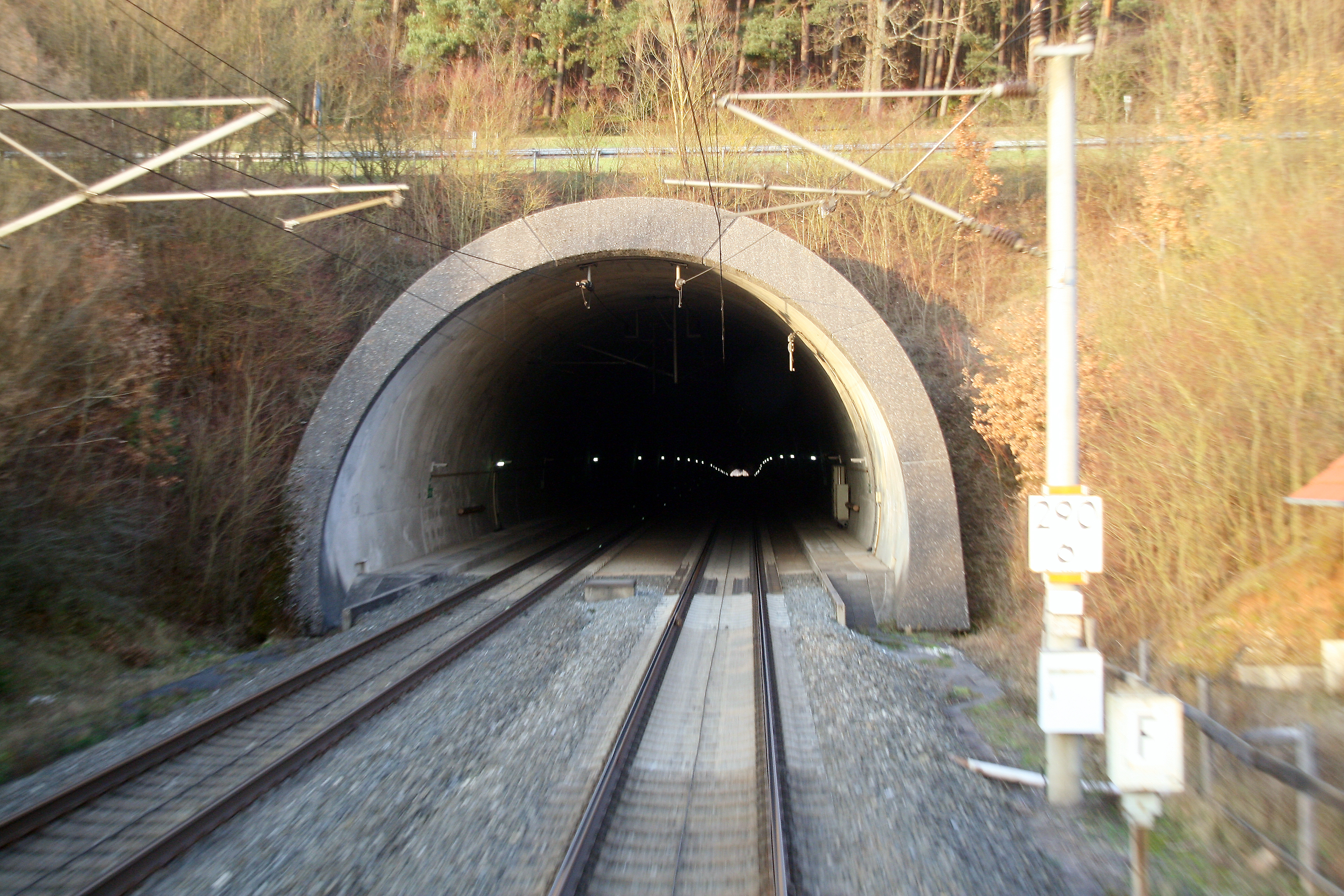 The southern portal of the Einmalberg Tunnel (Hanover-Wurzburg high-speed railway line).